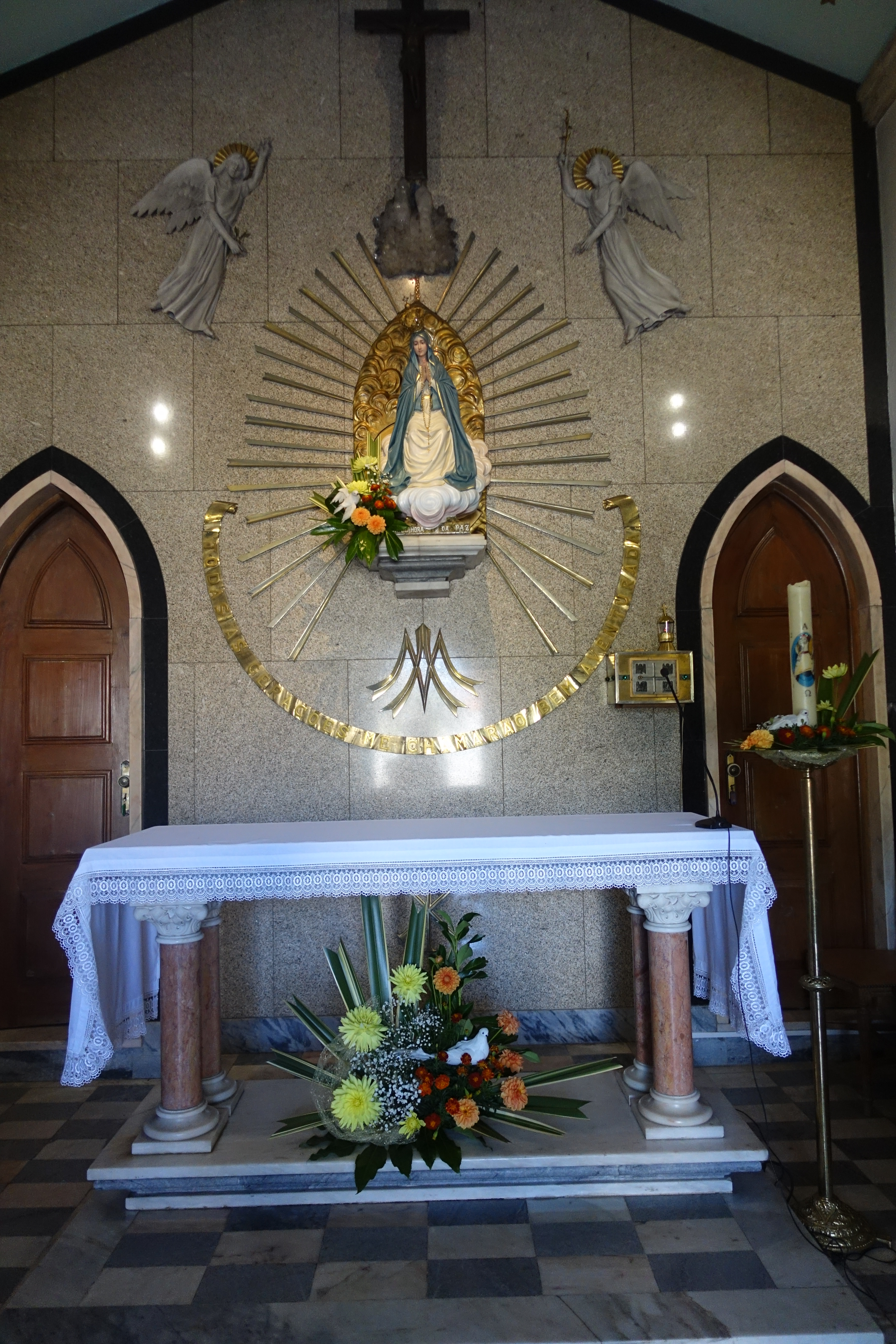 Santuário de Nossa Senhora da Paz, Ponte da Barca, Portugal.